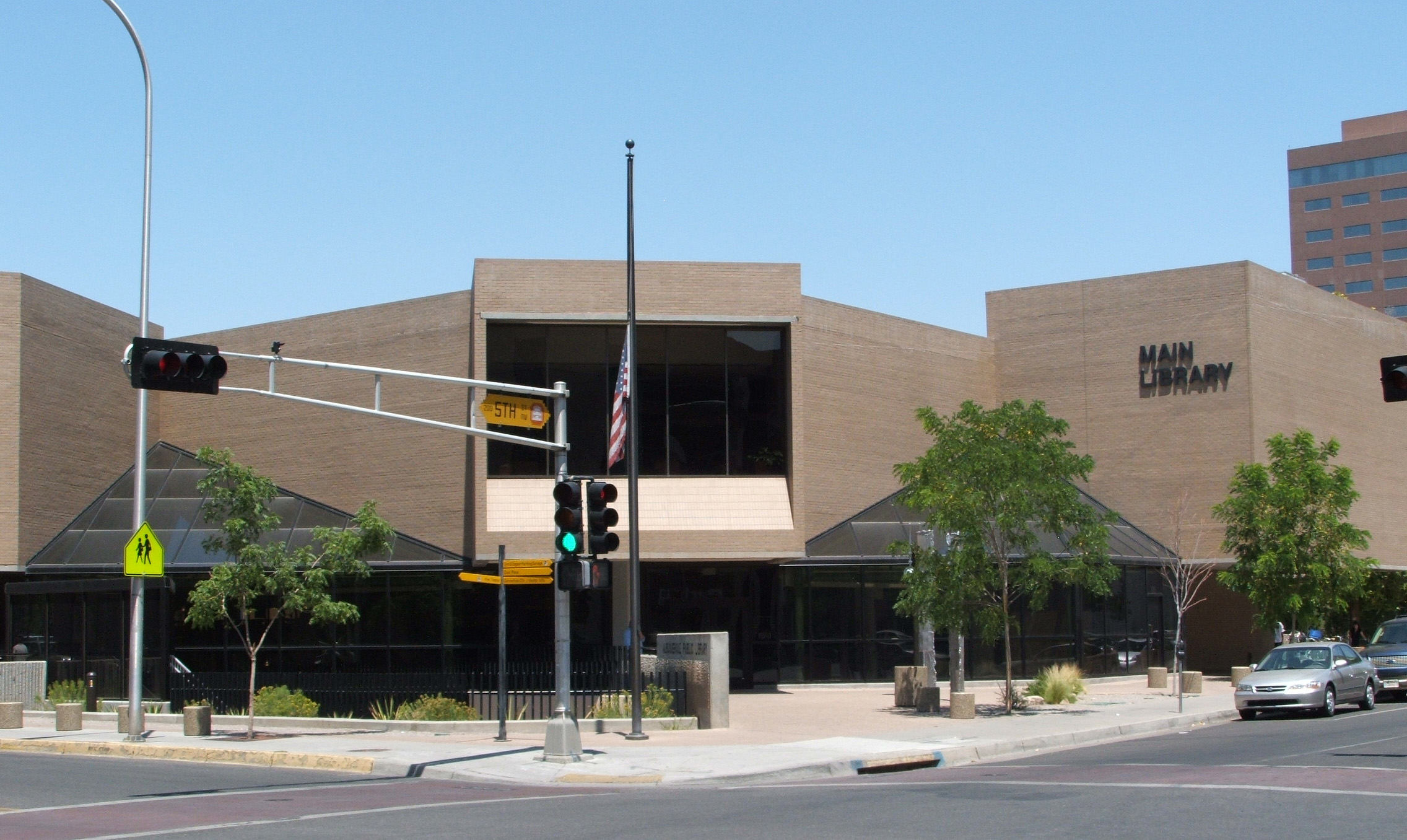 The Main Library in downtown Albuquerque, New Mexico, USA. Photo taken by me, released to the public domain.